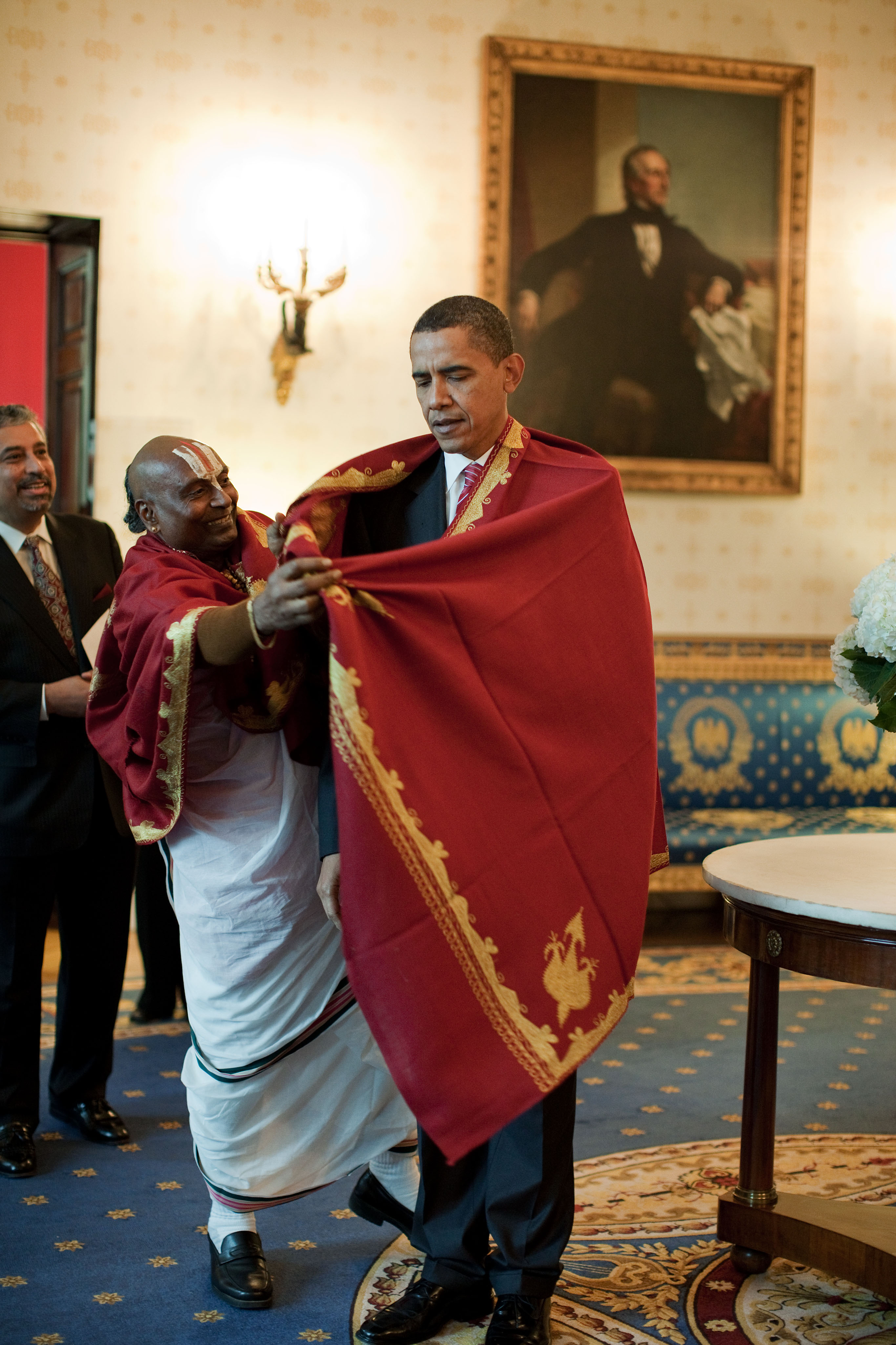 President Barack Obama receives a red shawl from Sri Narayanachar Digalakote, a Hindu priest from Sri Siva Vishnu Temple, located in Lanham, Md., in the Blue Room of the White House, prior to the Asian American and Pacific Islander Initiative Executive Order signing, and Diwali festival of lights ceremony